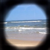 Example image showing a peripheral ring scotoma, as may be caused by retinitis pigmentosa.